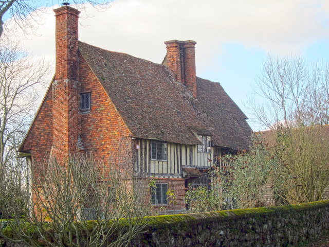 Hall House on Water Lane. This house was used as a location for the Agatha Christie's Marple (TV Series) episode "The Moving Finger" (2006). Great Tangley Manor, Surrey doubled as the other side of the house.